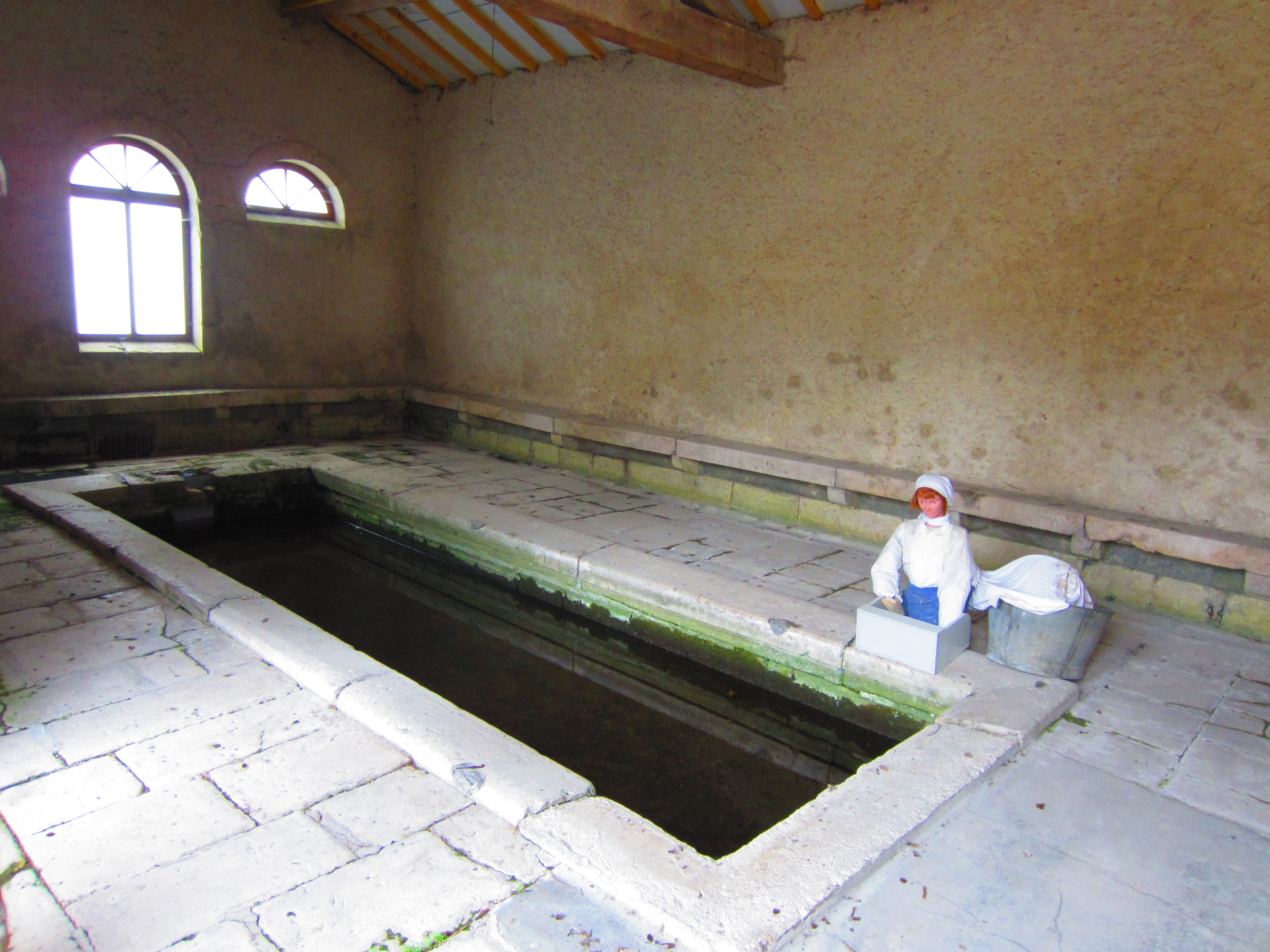 Lavoir Lacroix Meuse